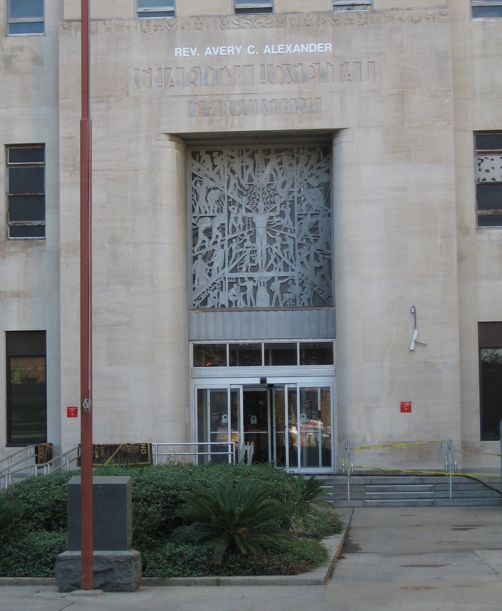 New Orleans after Hurricane Katrina: Main entrance Charity Hospital on Tulane Avenue. It has been announced that due to severe damage to the building, the hospital will not reopen, and the building is expected to be demolished. Photo by Infrogmation, October 2005